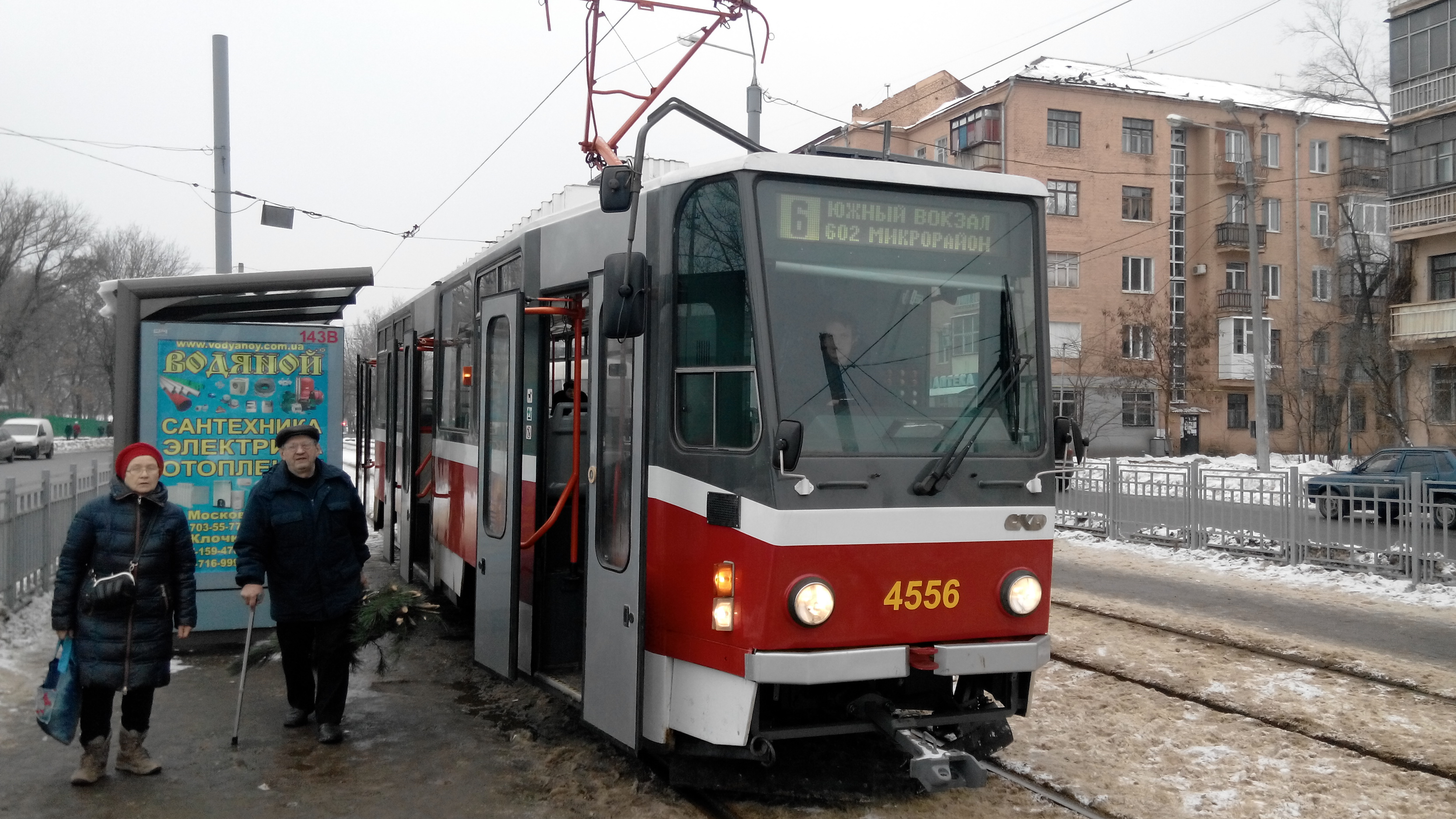 Tram Tatra T6A5 №4556 in Kharkiv Ukraine